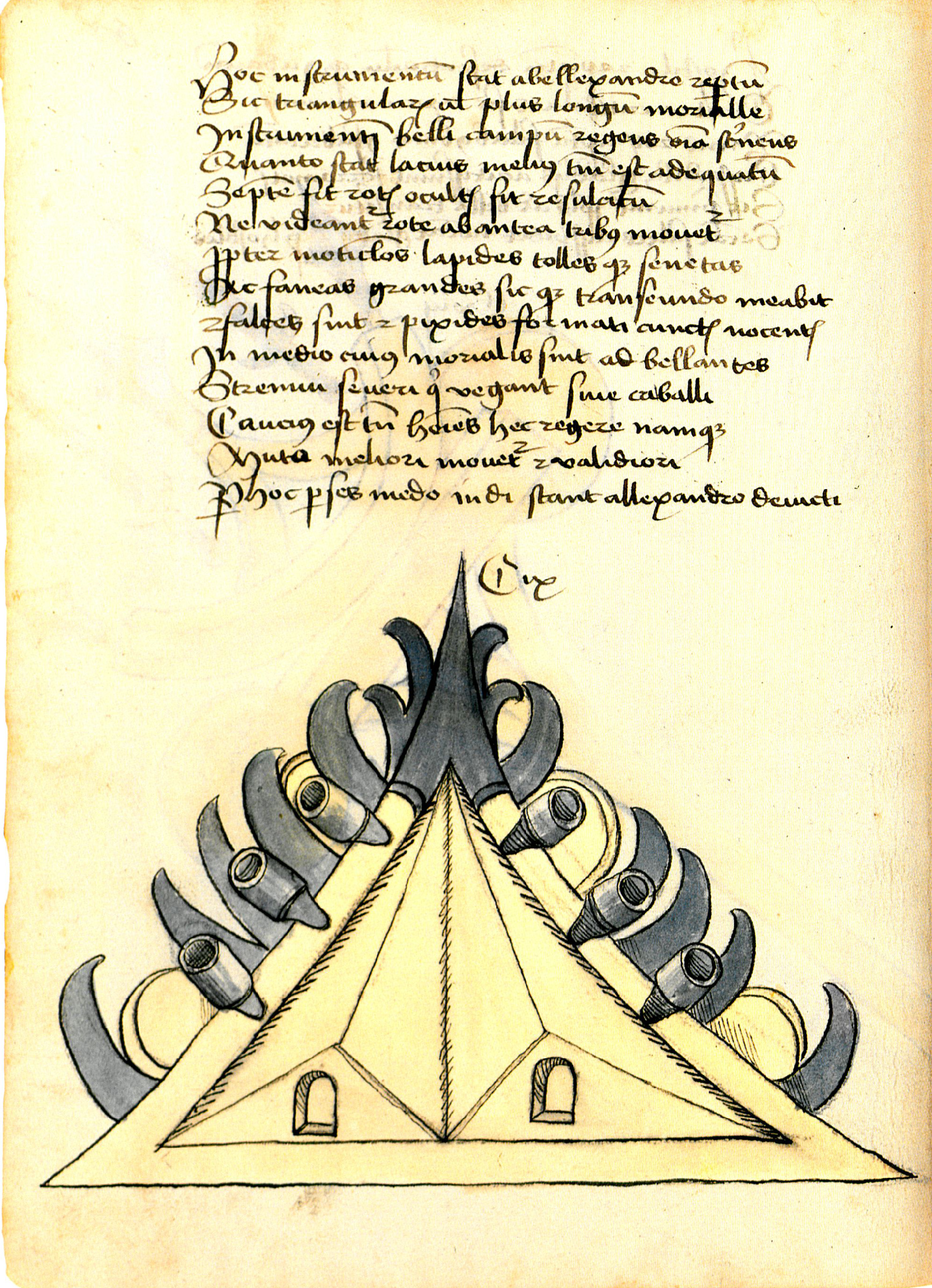 Wedge-shaped battle wagon